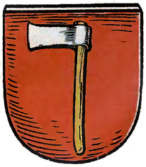 Coat of Arms of Jakobswalde (today Kotlarnia).